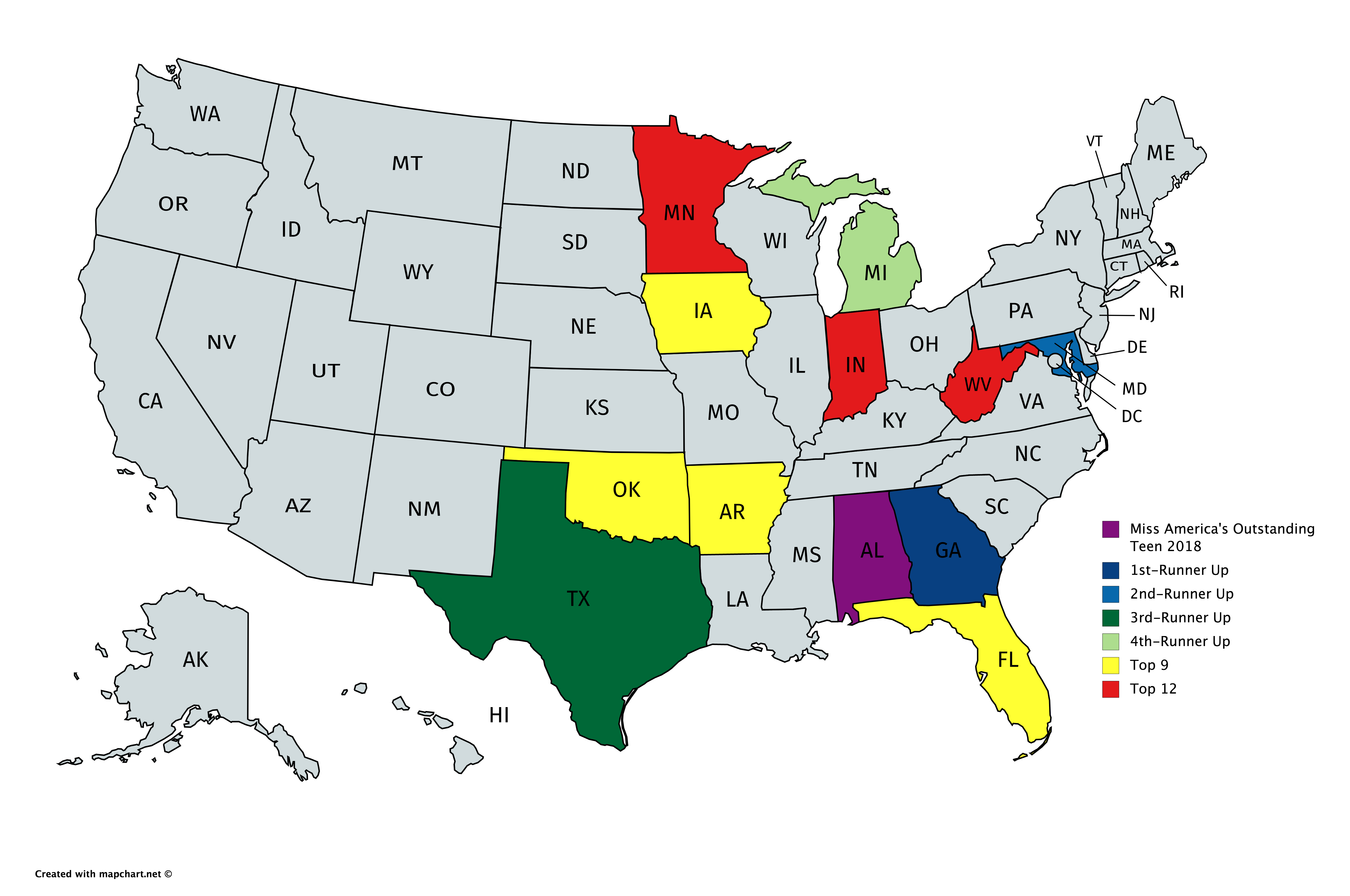 Placements of Miss America's Outstanding Teen 2018 on a map